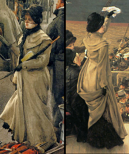 Details of The Departure Platform, Victoria Station and Goodbey, on the Mersey The woman is Tissot's companion, Mrs. Kathleen Newton (1854-1882) [1] Keys: Reisemantel, Pelerine (dreifache)